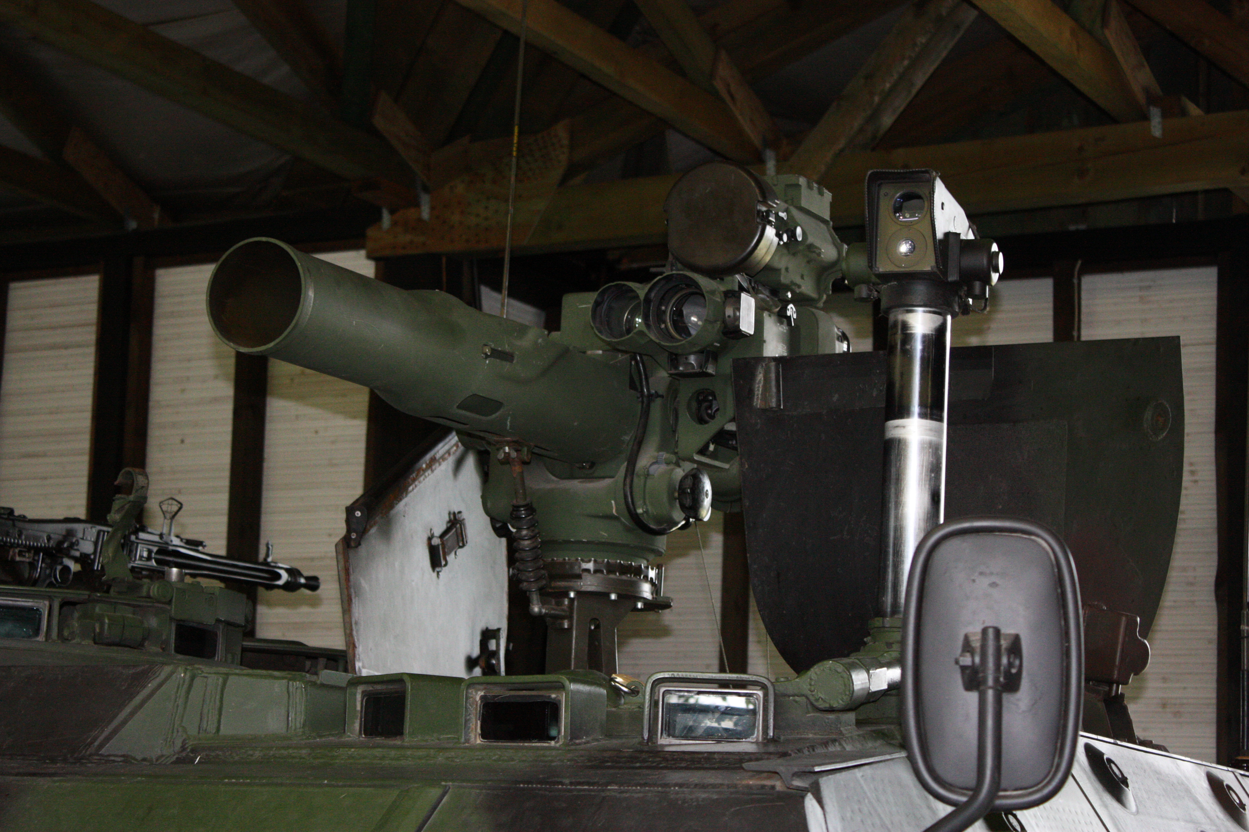 German Tank Museum